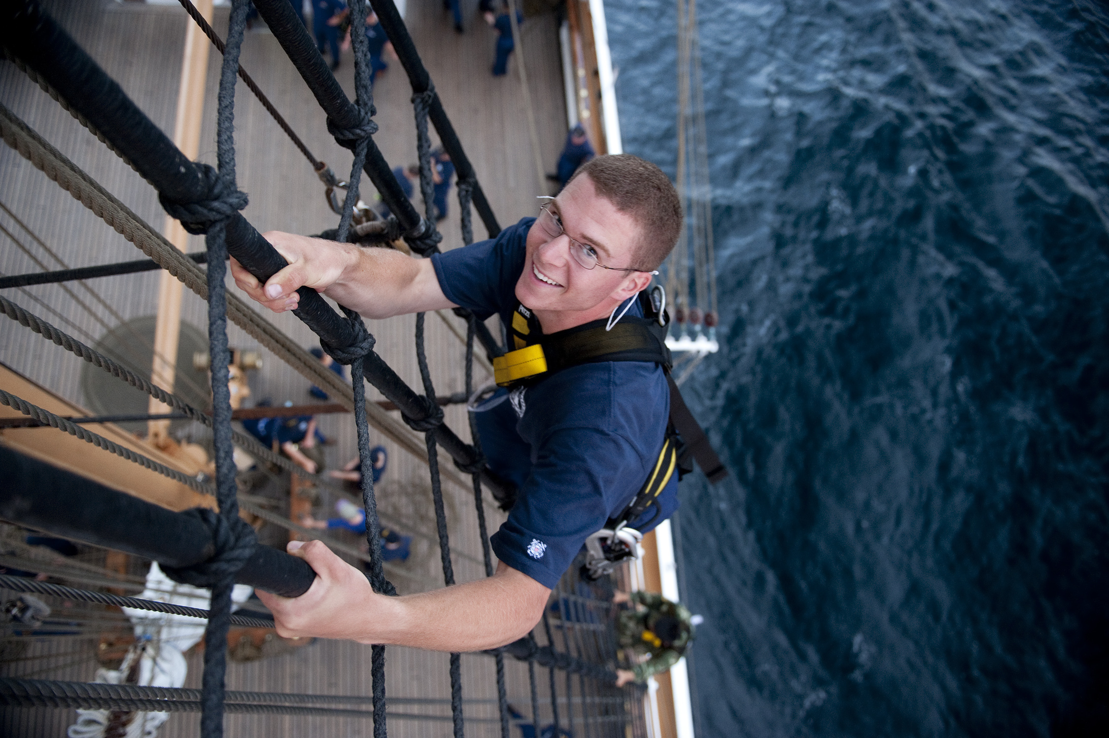 U.S. Coast Guard Fourth Class Cadet Kelcey Smith poses for a photo while climbing the rigging aboard the Coast Guard Cutter Eagle Monday, Aug. 1, 2011. The Eagle is underway on the 2011 Summer Training Cruise, which commemorates the 75th anniversary of the 295-foot barque. U.S. Coast Guard photo by Petty Officer 1st Class NyxoLyno Cangemi